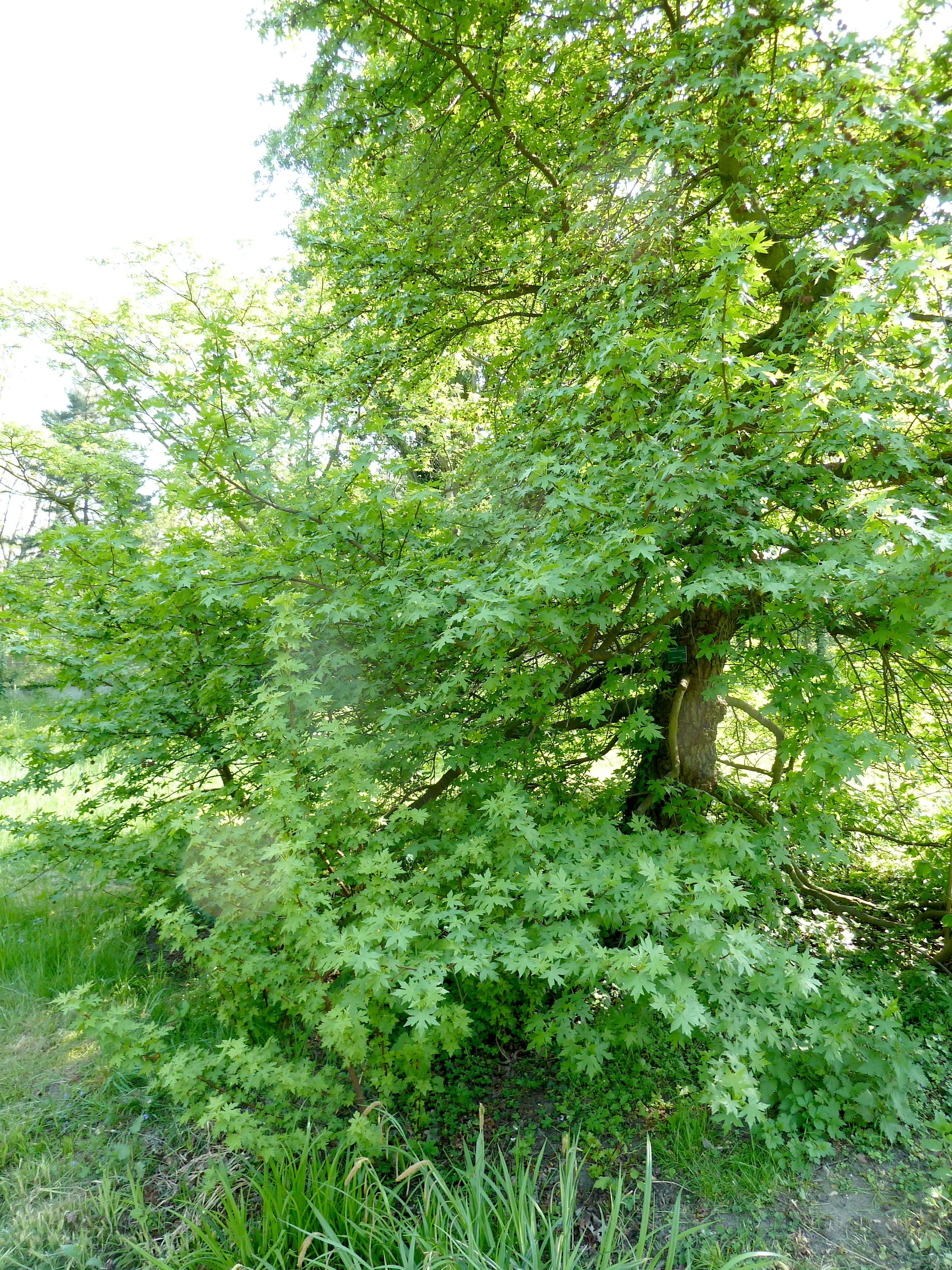 Liquidambar orientalis in Arboretumde l'école du Breuil (Paris, France)